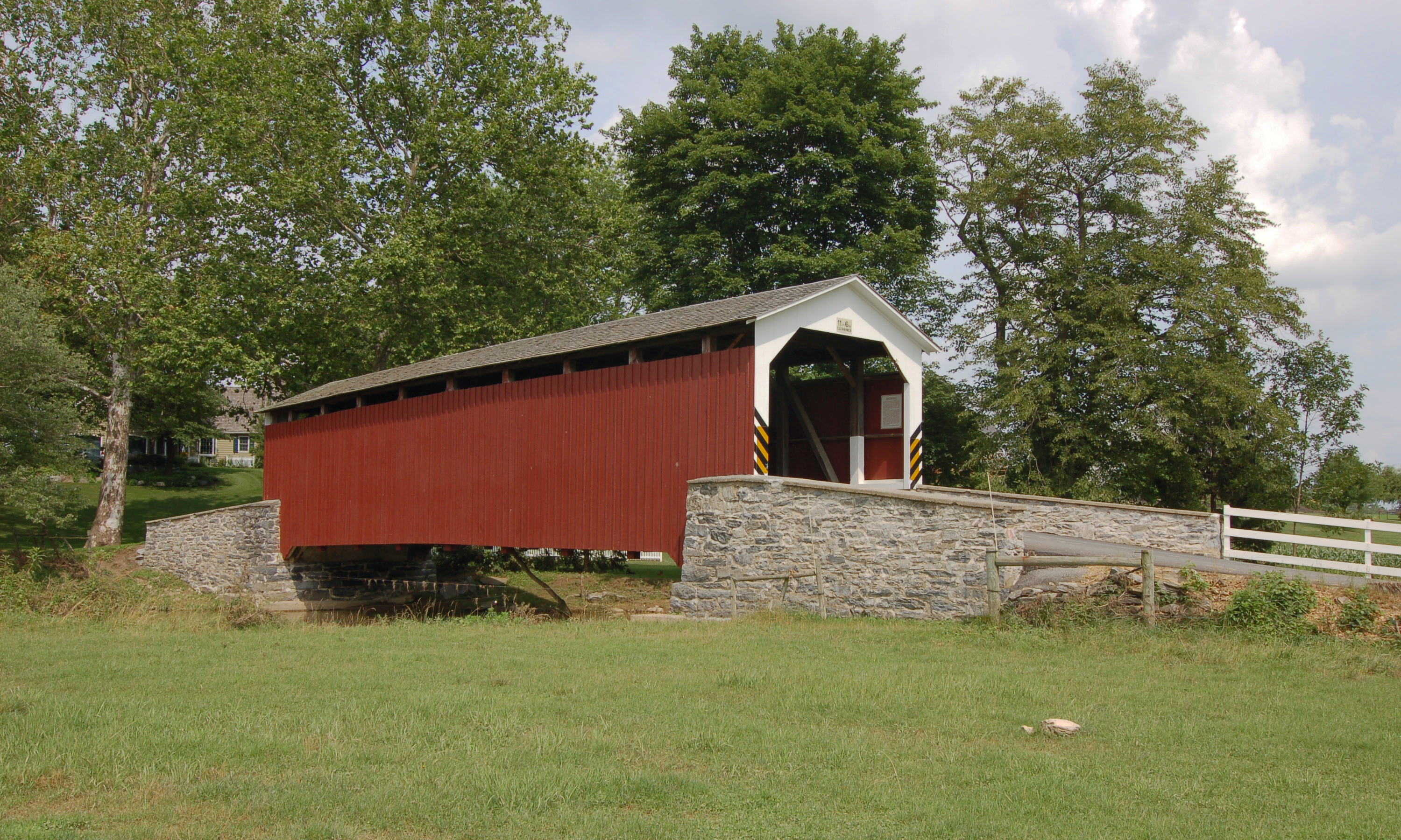 A photograph of the Erb's Covered Bridge showing the side of the bridge. The bridge is located in Lancaster County, Pennsylvania.